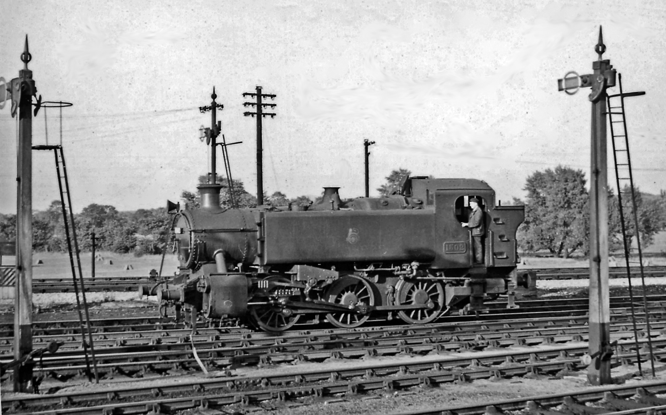 New type of GW Pannier Tank engine at Didcot. View NE from east end of the station, across the Goods Yard to the Avoiding-line to Oxford etc. The '1500' outside-cylinder 0-6-0Ts were a post-war 'Austerity' design by Hawksworth for the GWR, but not introduced until 1949 - after Nationalisation. No. 1502 was built 7/49 and withdrawn 1/61! There seems to be a loud-speaker, for the shunting work, on a pole behind the engine's front end. (See also SU5290 : A 'Modified Hall' 4-6-0 on an Up Parcels at Didcot and SU5290 : 2-6-0 pilot locomotive in the yard at Didcot re the location).